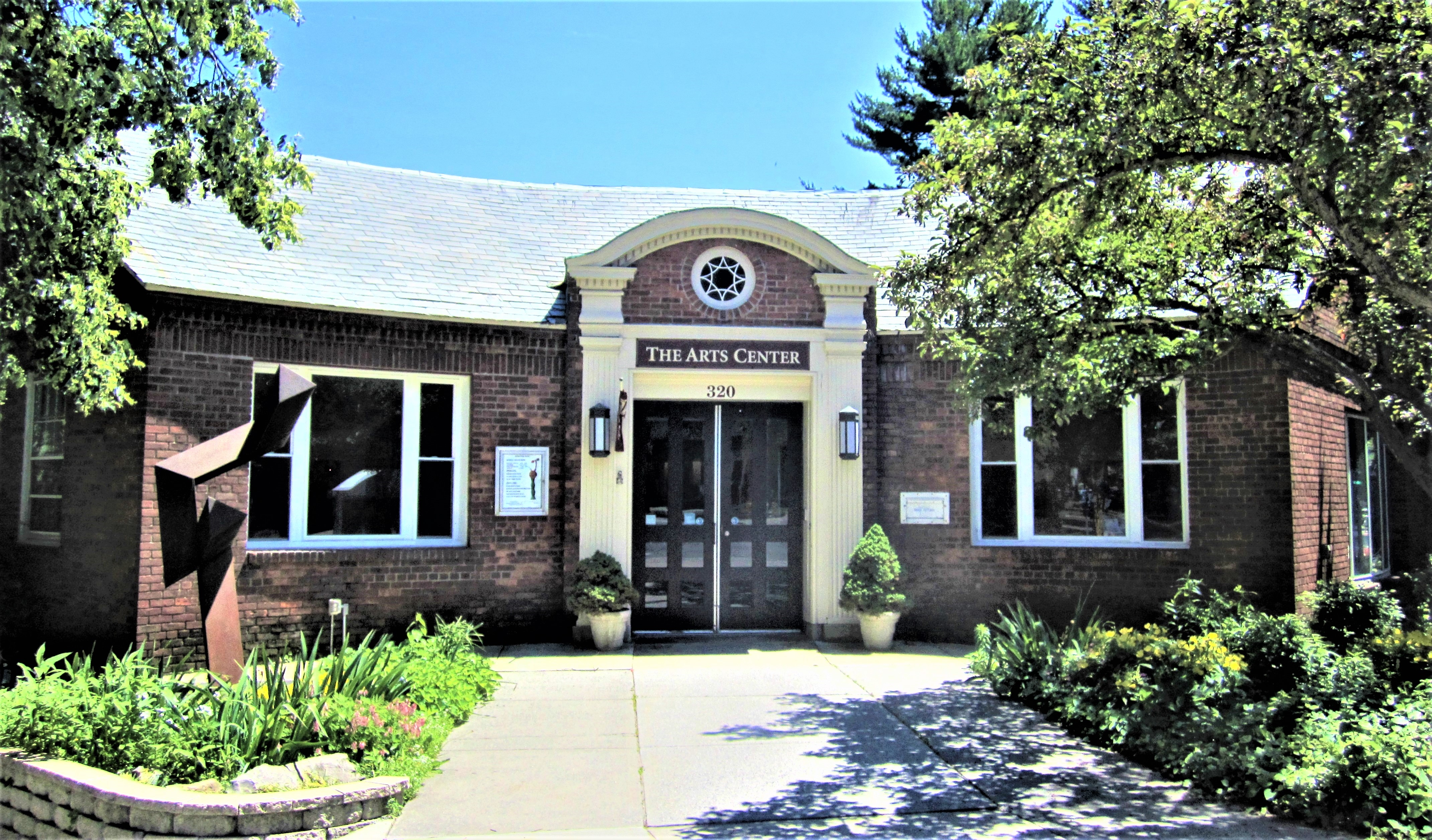 The Arts Center, 320 Broadway, Saratoga Springs NY